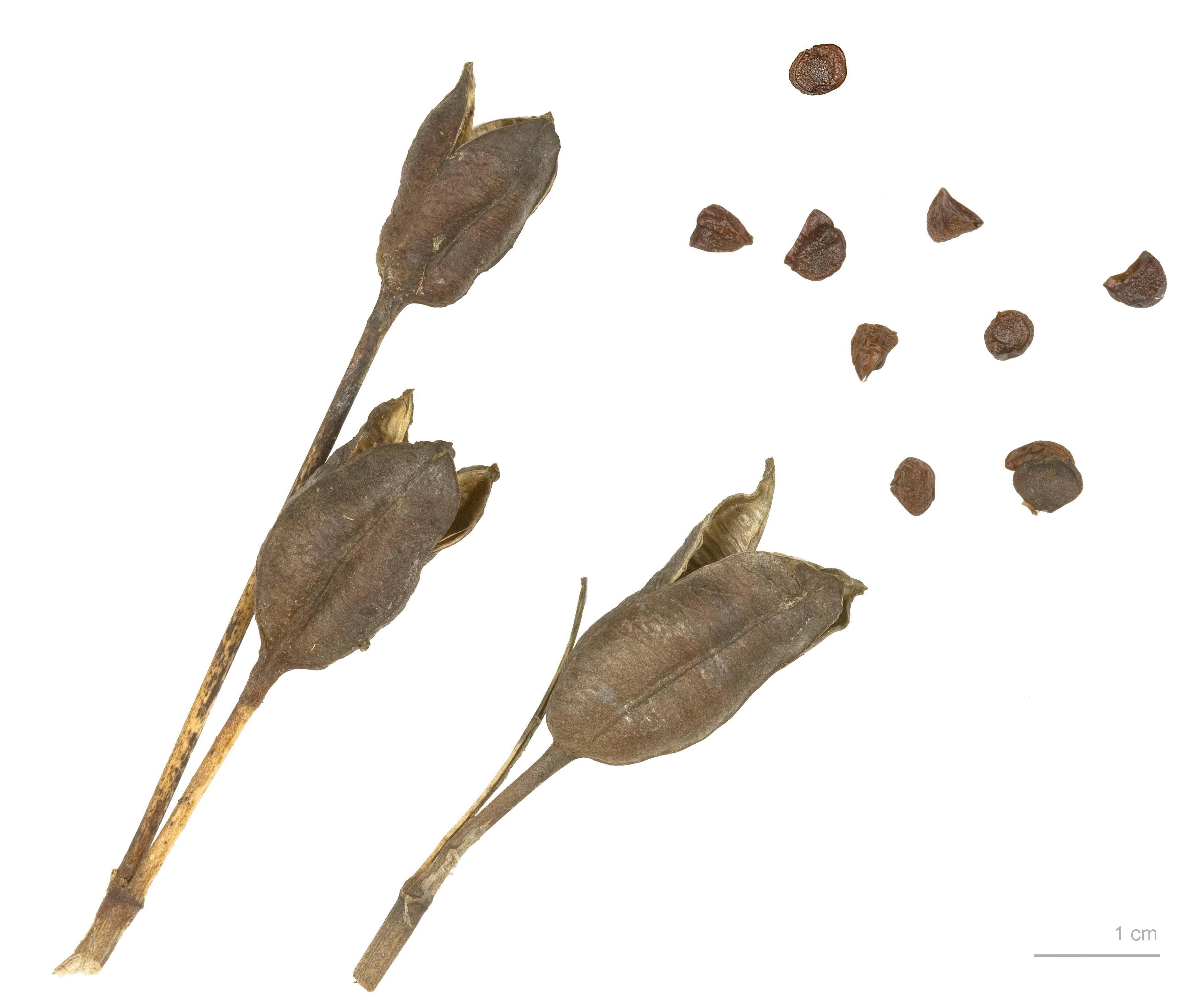 Siberian Iris, fruits and seeds